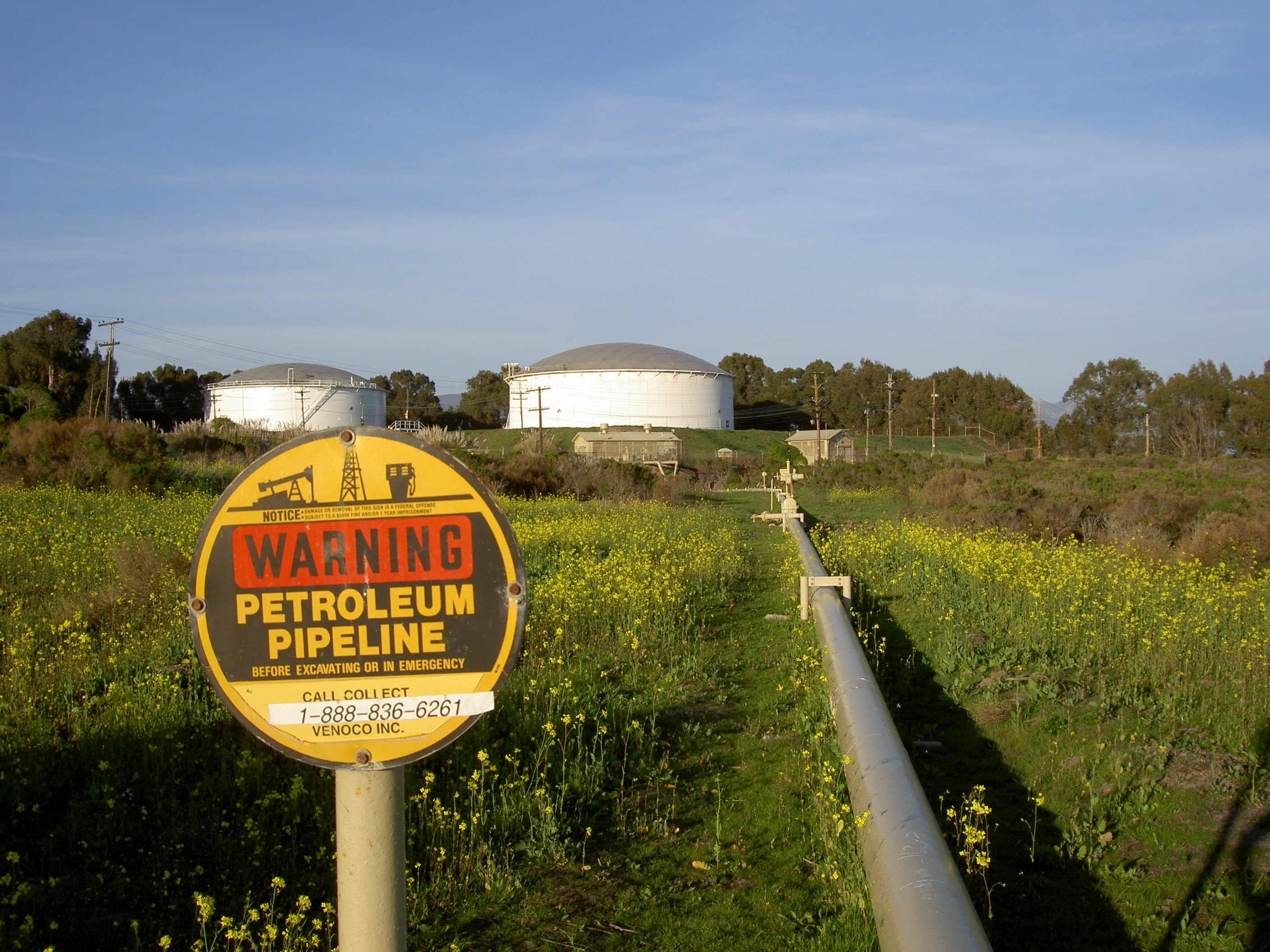 Oil storage tanks and "Warning: Petroleum Pipeline" sign at the onshore storage facility at Ellwood Beach, Goleta, California.